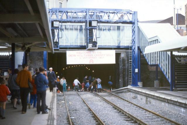 Snow Hill Tunnel and Moor Street Station Nearly 20 years after the last train ran, the railway from Moor Street Station through Snow Hill tunnels was re-instated. This picture was taken shortly before the line re-opened on the occasion of an open day for charity, organised by the Birmingham Evening Mail (hence the poster) during which the public were allowed to walk through Snow Hill Tunnel from Moor Street Station. These through platforms were newly constructed in the style of the time since the original Moor Street station had terminal platforms. During 2005-6 Moor Street station received a massive refurbishment and a fantastic job has been done to match the style and paintwork of buildings and furniture to blend in with the early 1900s structure of the adjacent original station.